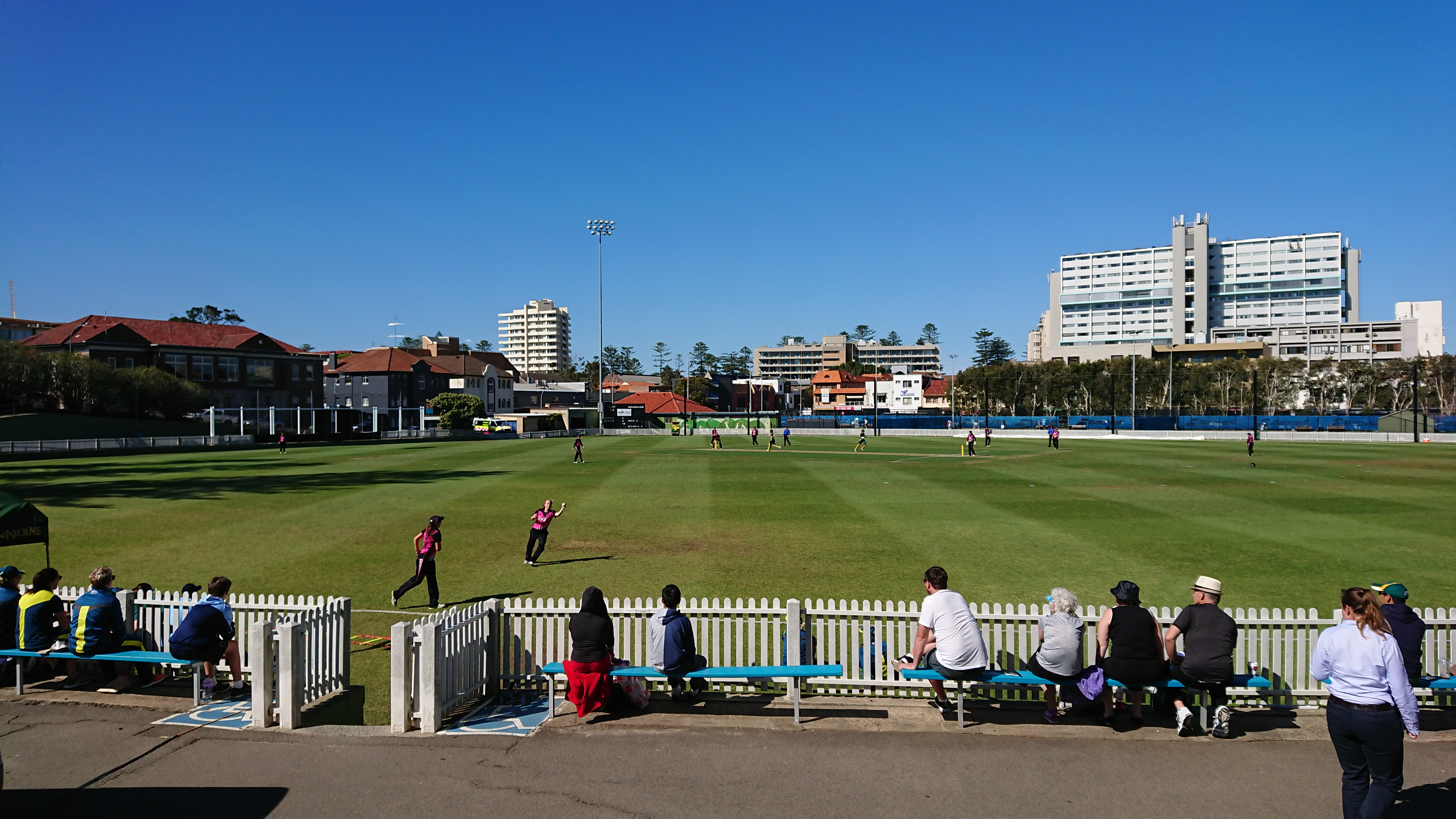 Womens Twenty20 warm-up match